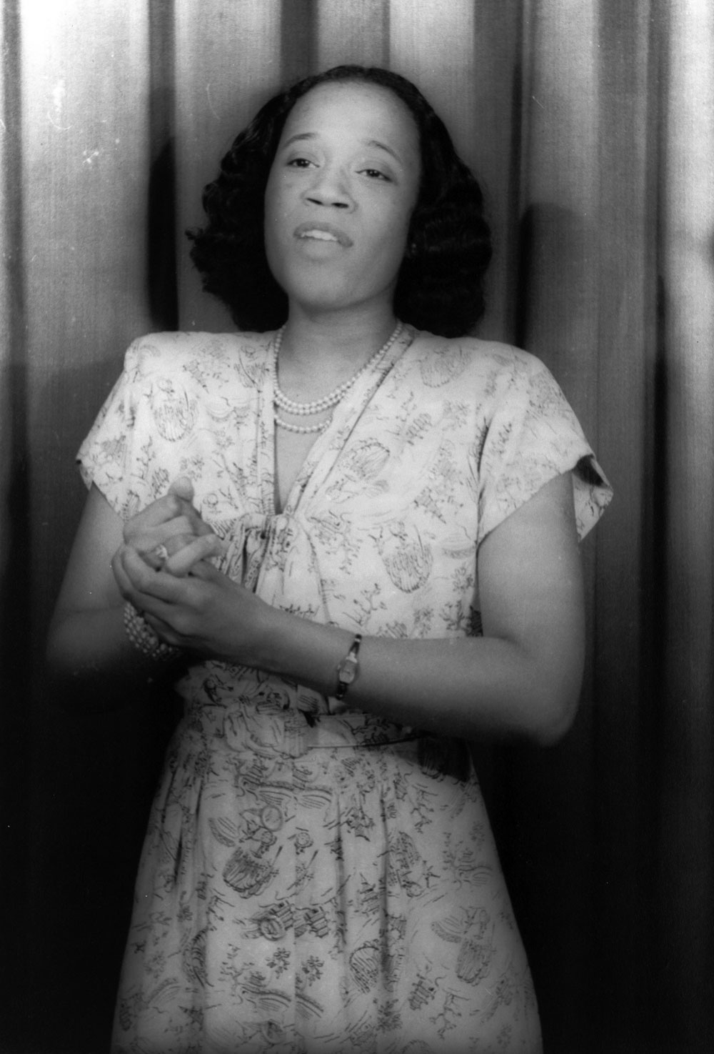 Camilla Williams — Soprano opera vocalist, from the United States. Photo taken by Carl Van Vechten, photographer (1946).